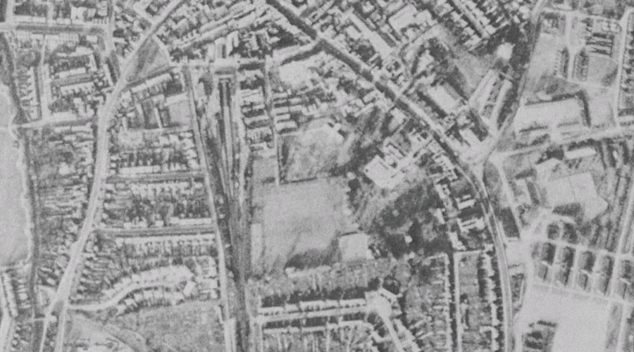 Uxbridge Vine Street railway station and the Uxbridge Cricket Club's former ground on Cricketfield Road in 1945.